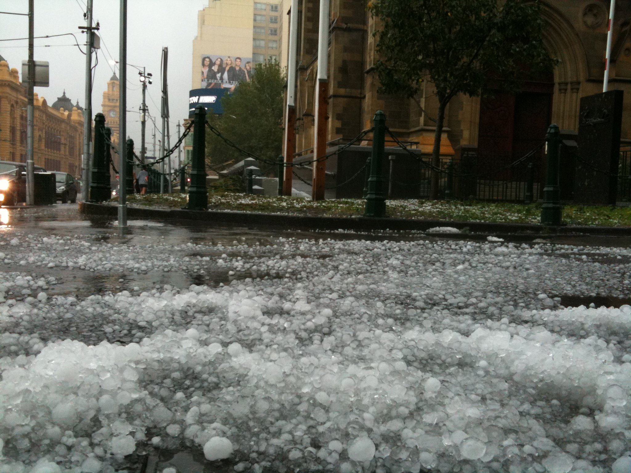 Hail piled up on Flinders Street after the hailstorm of 06 March 2010.